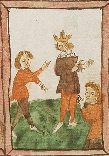 Parable of the Talents